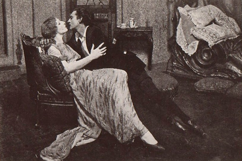 Violet Kemble-Cooper & John Barrymore in the Michael Strange (Blanche Oelrichs)'s play Clair de Lune, Empire Theatre, Broadway - publicity still (cropped)